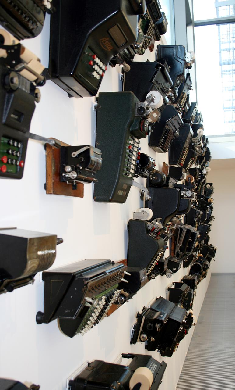 Collection of calculating machines at Arithmeum, Bonn, Germany. The machines are hanging on a wall.